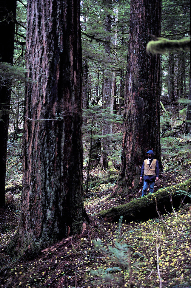 Old-growth Douglas-fir forest in the Bull Run watershed, Mount Hood National Forest, Oregon.